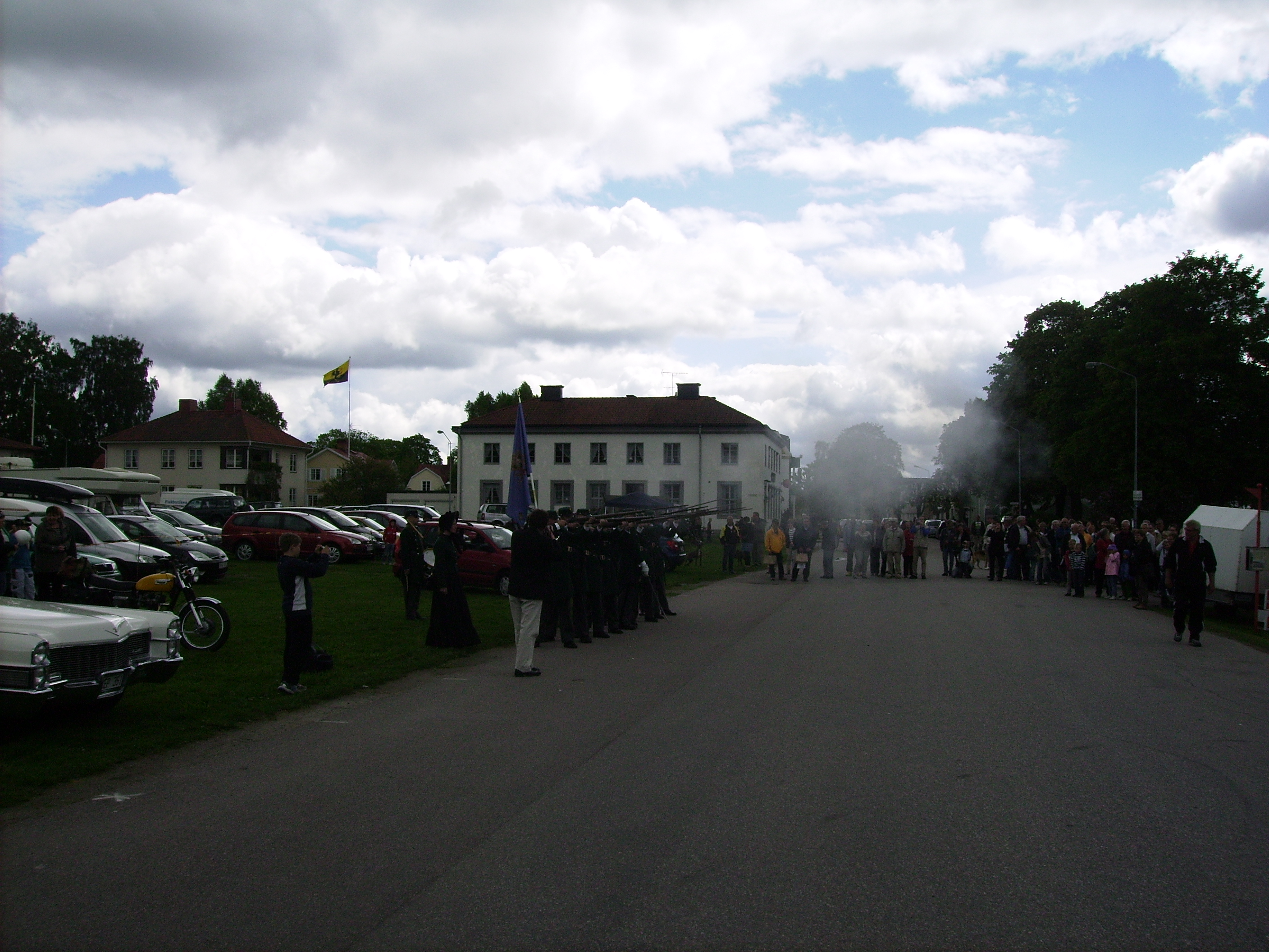 Picture of Malmköpings gammaldags marknad (fairs)